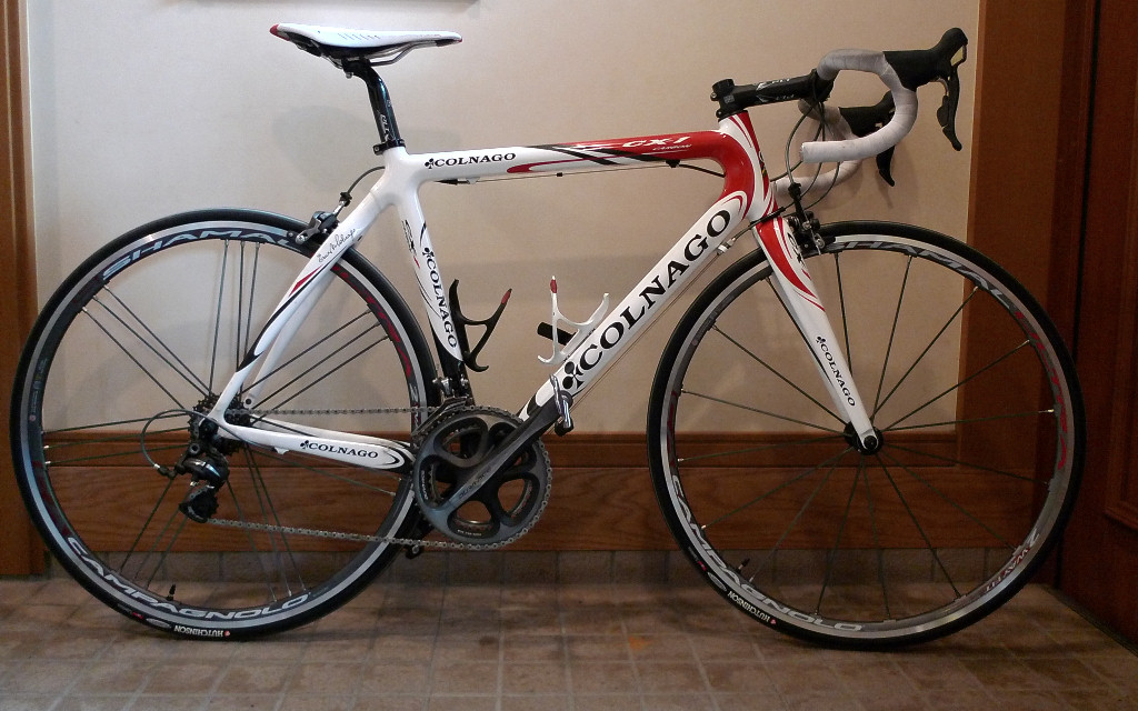 Colnago CX-1,picture taken by User:Azu Spec: Components:Shimano Dura-Ace 7900 Wheels: Campagnolo Shamal Ultra 2-way fit Tires: Hutchinson Fusion2 tubeless